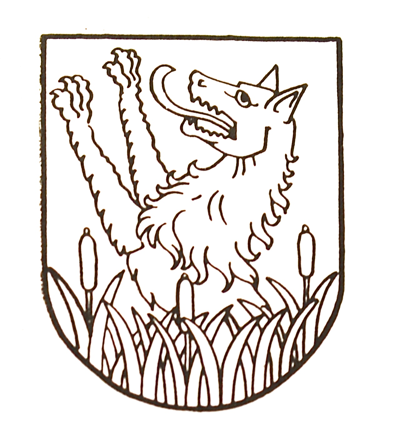 Altes Marktwappen von Purbach